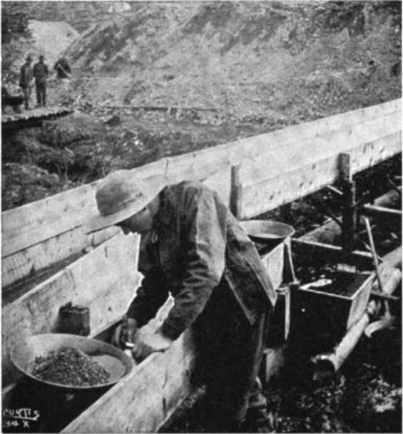 Original caption: "Taking gold out of a sluice box".